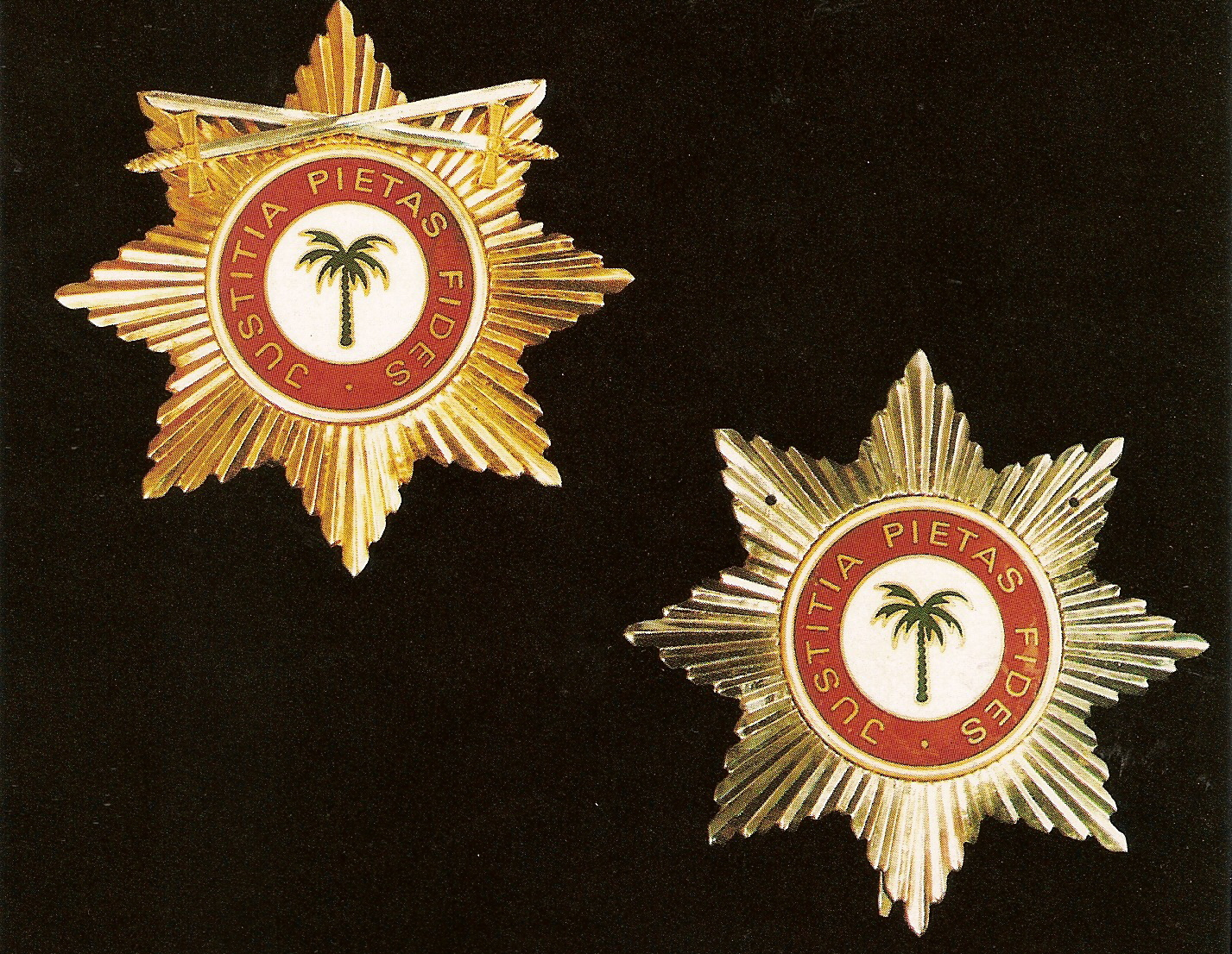 The Honourable Order of the Palm for the bearer of the Sash of Honour (left) and the Honourable Order of the Palm Grand Officer (Suriname)